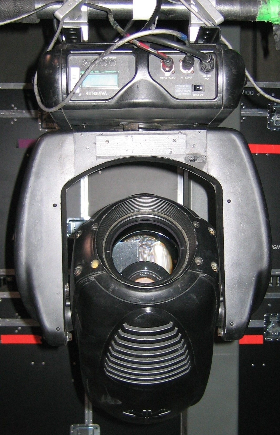 The VL3000Spot fixture hanging from a truss